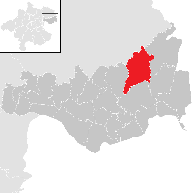 district Perg